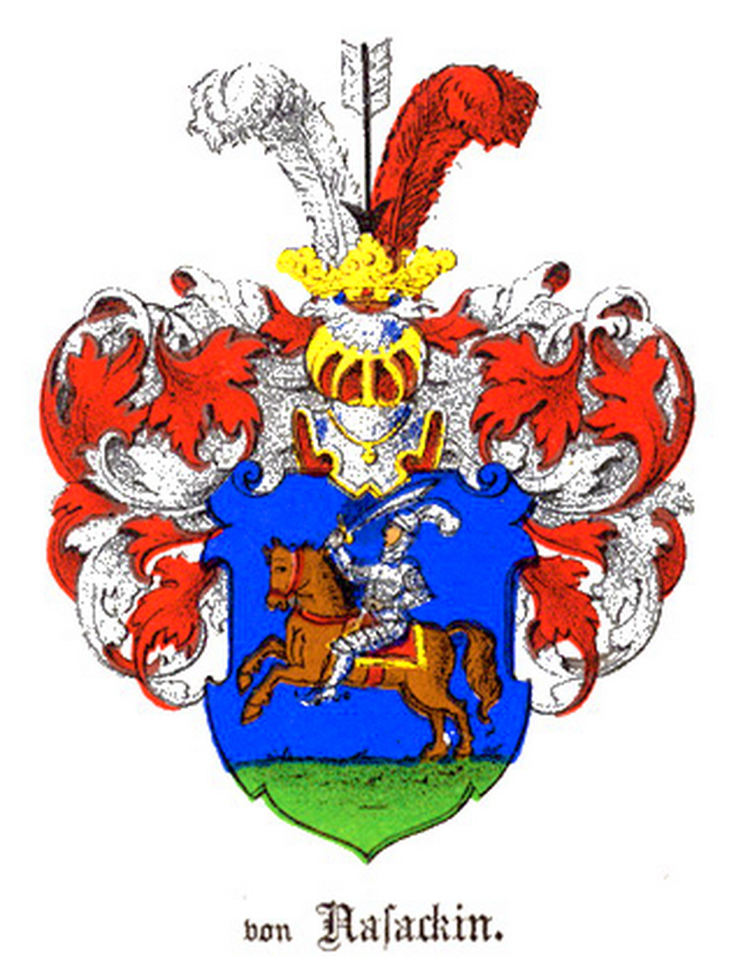 Coat of arms of von Nasackin family